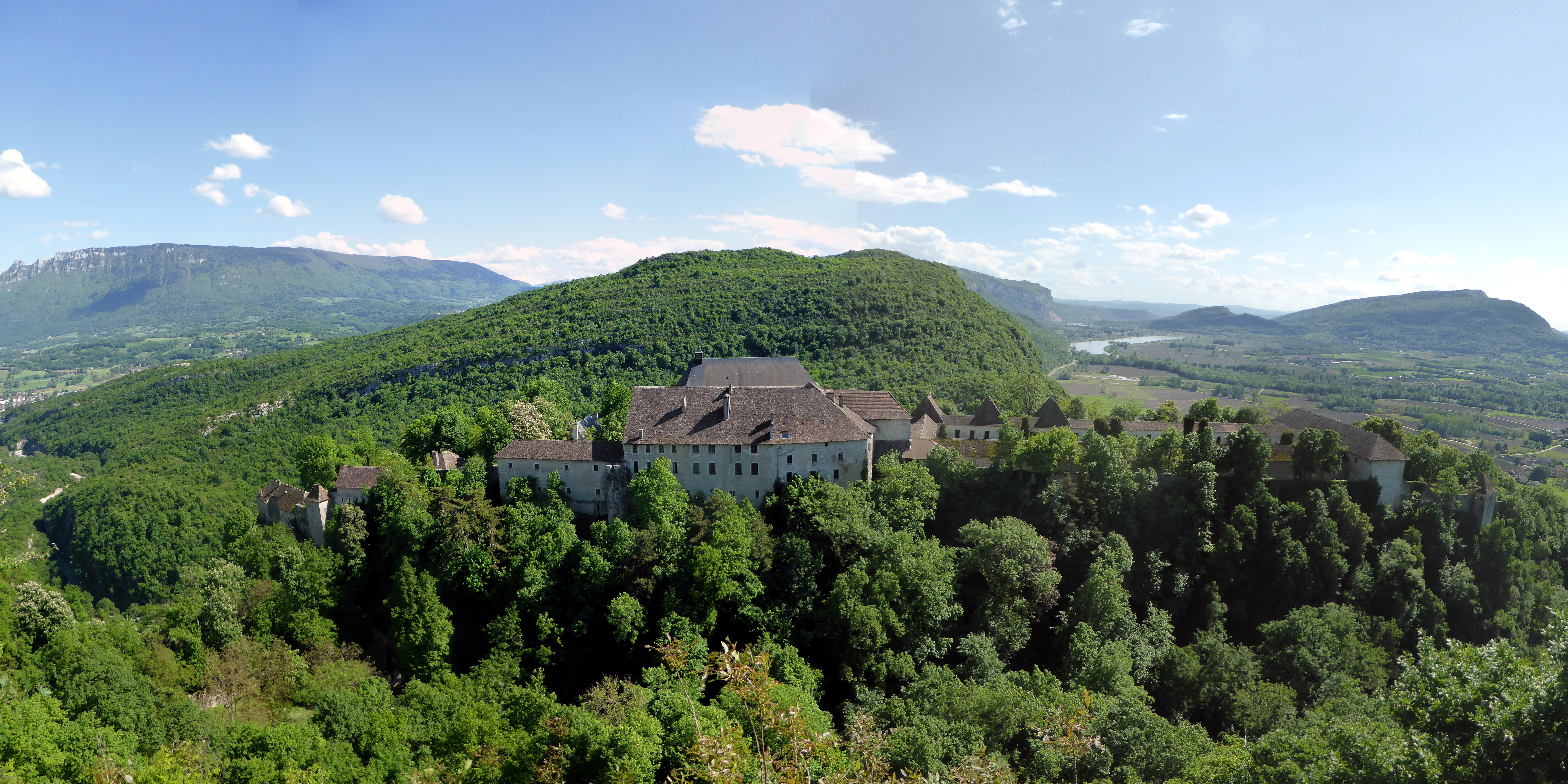 Former charterhouse of Pierre-Châtel, Virignin, Savoie, Rhône-Alpes, France.